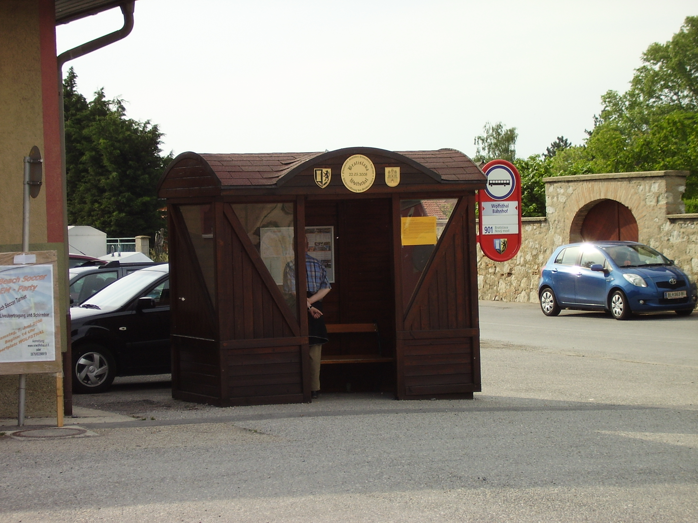 Wolfsthal bus station for international public transport buses from/to Bratislava, Slovakia